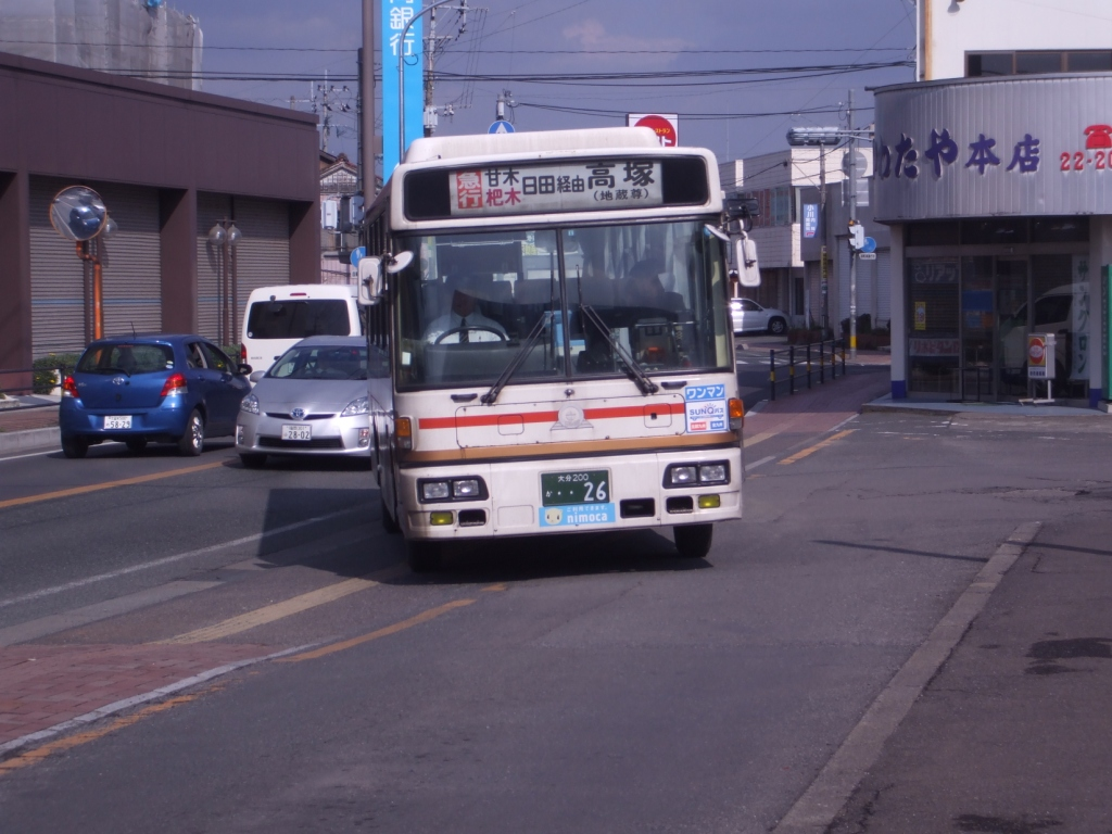 Hita Bus express service for Takatsuka entering the Amagi Bus Center in Asakura City, Fukuoka Prefecture, Japan